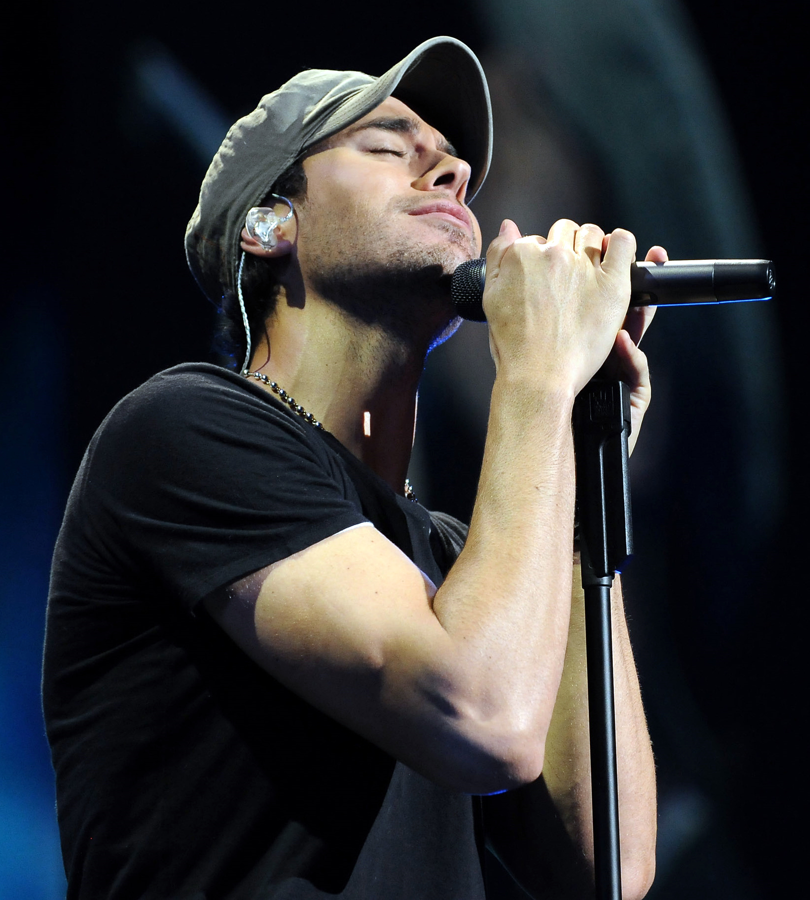 Enrique entertains the crowd at the shareholders meeting.